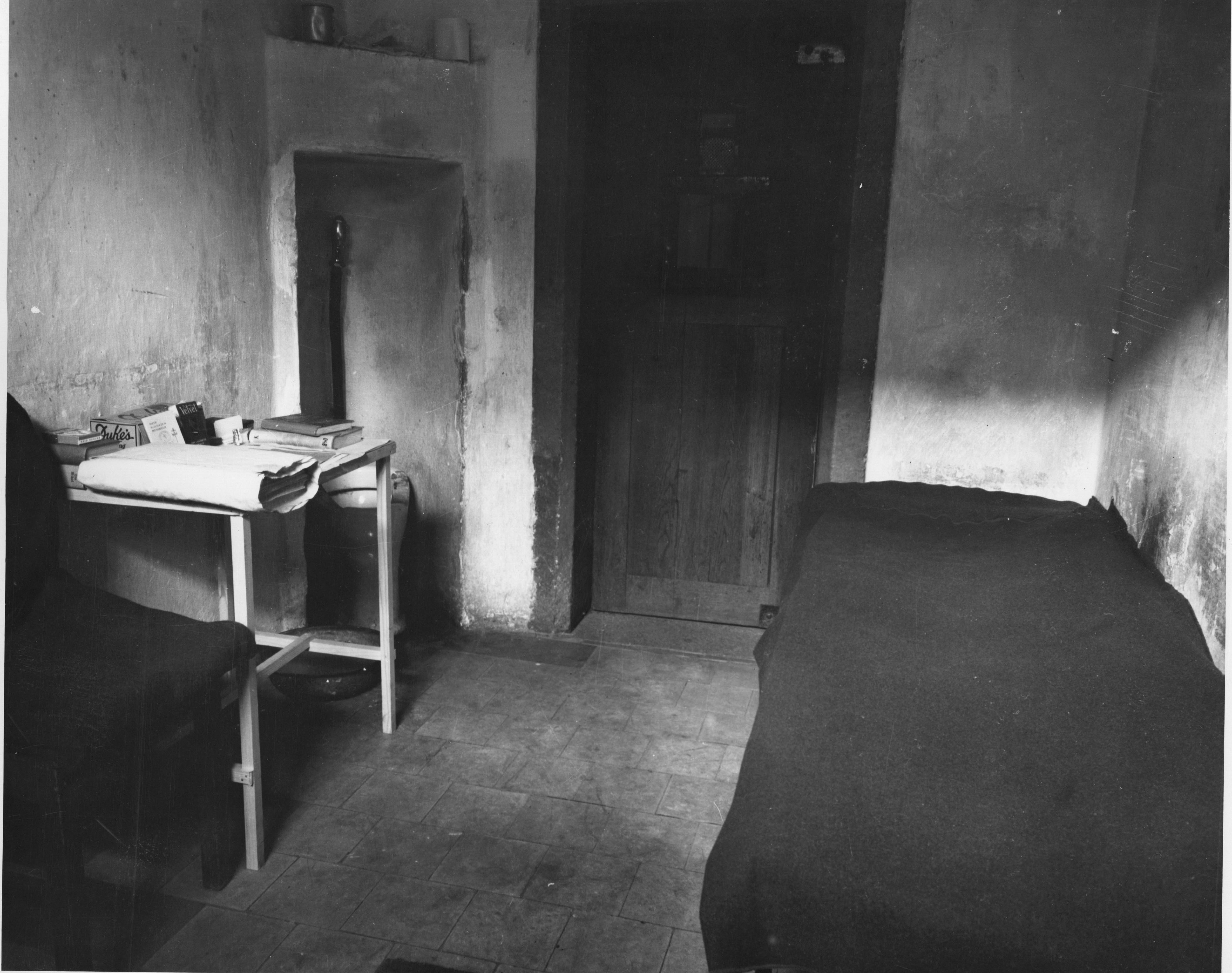 Spartan Abode. Cell within the Nuremburg Prison, (WW II Signal Corps Photograph Collection).